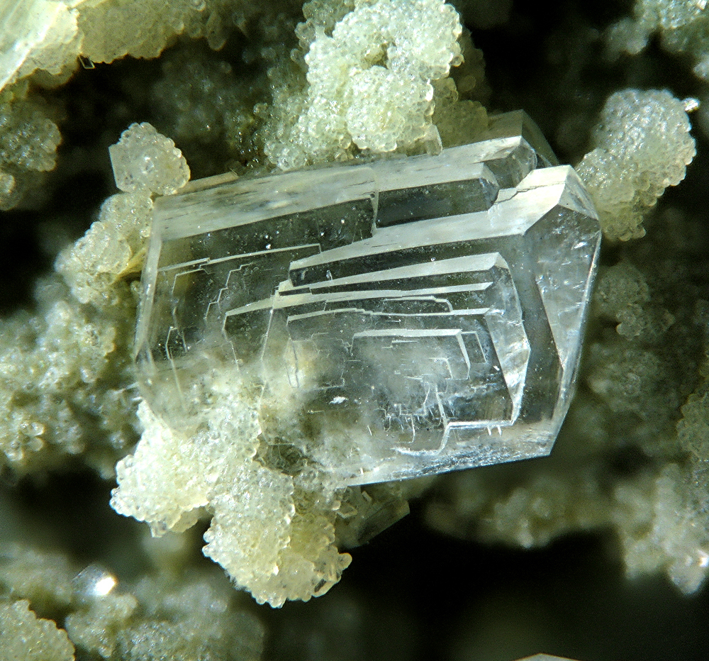 Clinoptilolite-Na Locality: Rodalquilar, Níjar, Almería, Andalusia, Spain Picture width 2.5 mm. Collection and photograph Christian Rewitzer